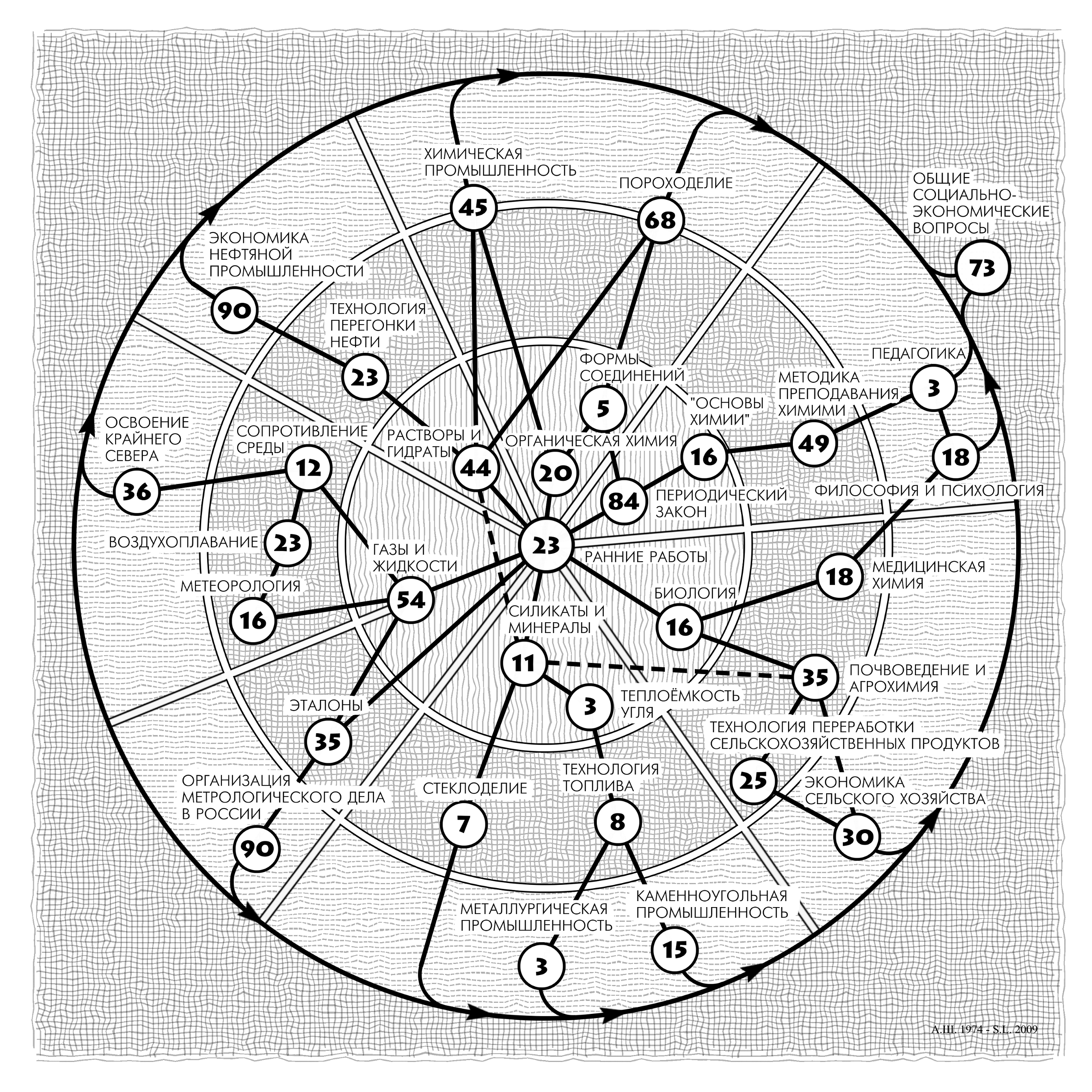 R. B. Dobrotin. The scheme of logical-thematic creativity of Mendeleyev Design by A. M. Schultz. 1979 (Serge Lachinov - 2009)